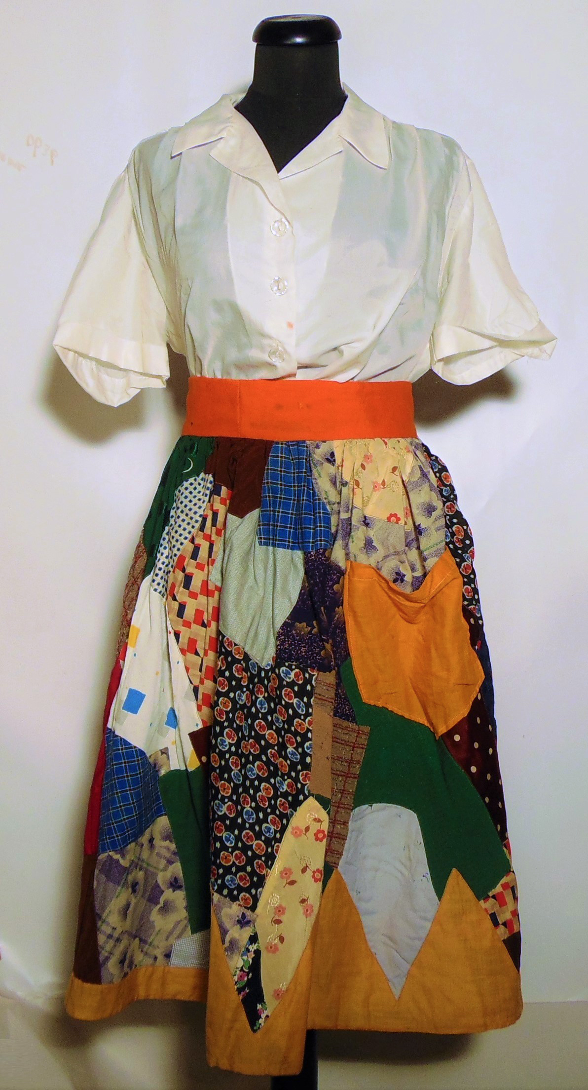 National liberation skirt; National Institute stamp 1946, with an orange pocket, dates on the yellow border: 4 May 1946, 4 May 1947. These skirts were widely produced in the Netherlands after the second world war to commemorate liberation. The dates of successive victory day celebrations during which the skirt was worn were embroidered on the border. Photographed in the collection of the National Liberation Museum 1944-1945, the Netherlands, archive number 3.2.2.